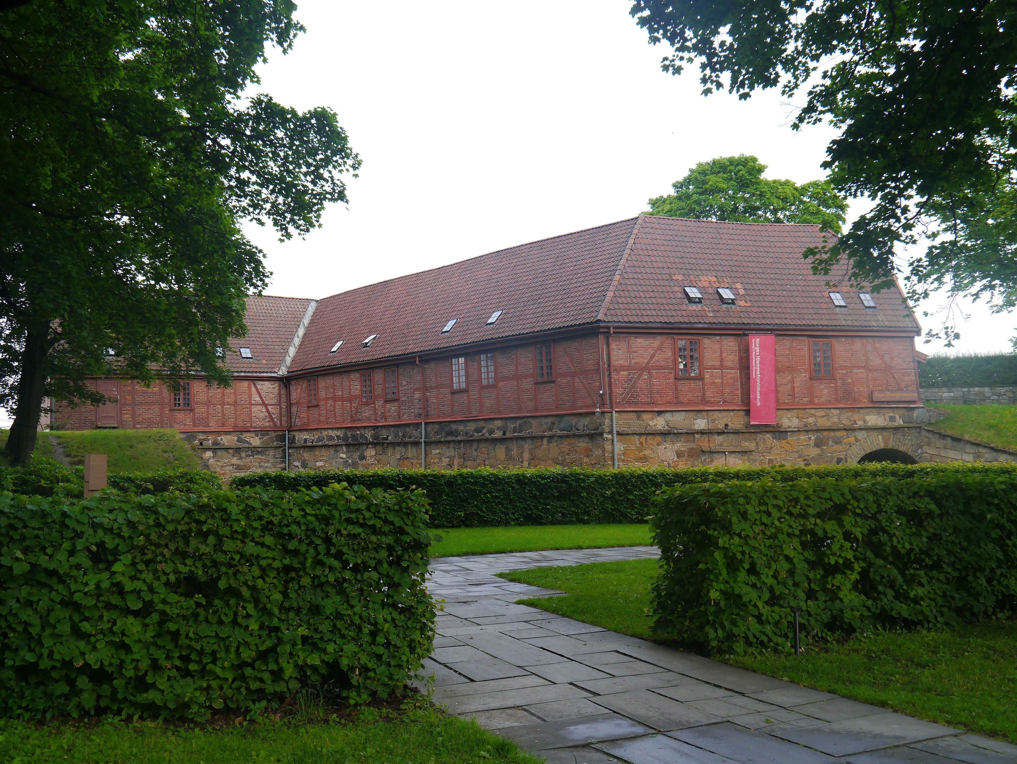 Akershus Fortress, Oslo, Southern Norway